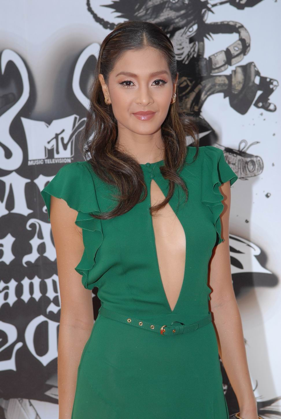 Metinee Kingpayome